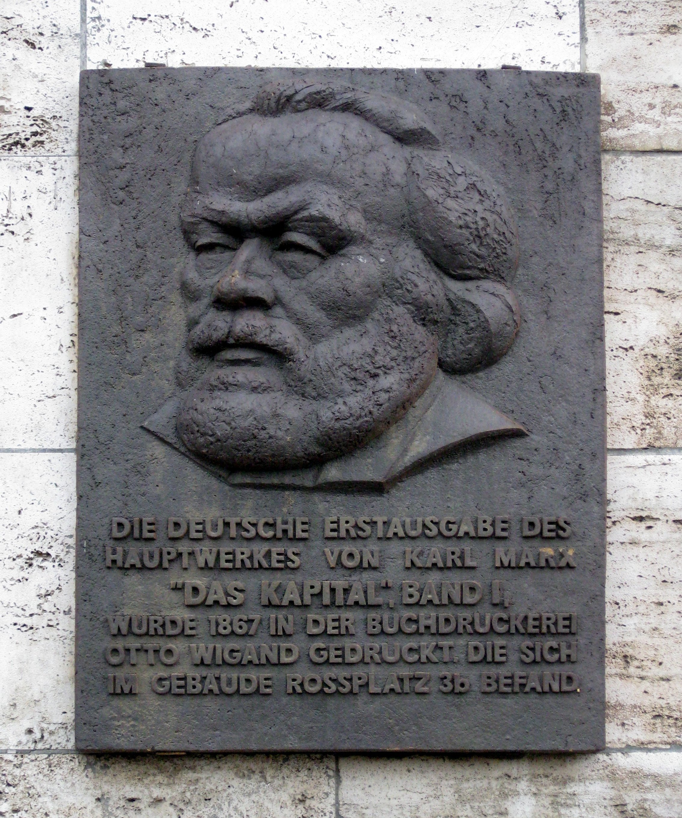 Memorial plaque to the first german print edition of Karl Marx's `Das Kapital 'to the building Rossplatz 3b in Leipzig.